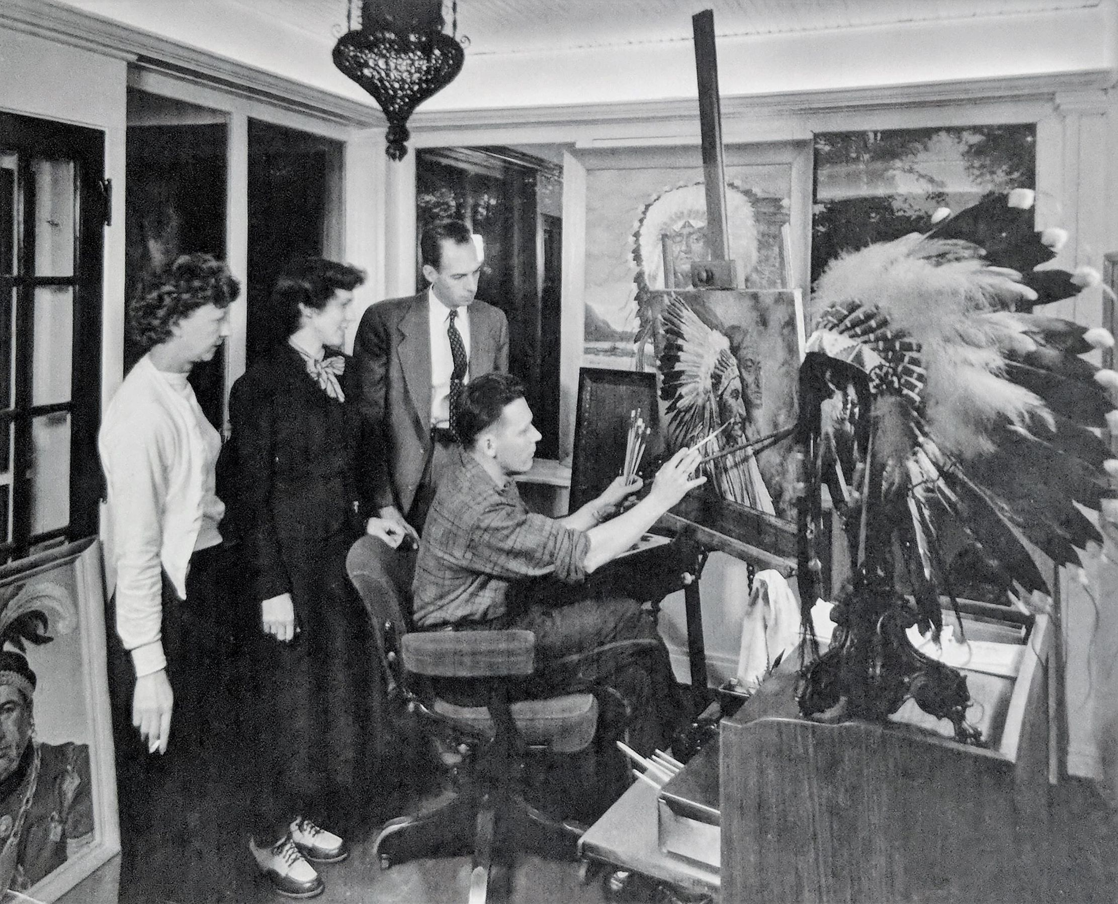 The artist Nick J Schwab Jr at work in his studio. Here his is working on his paining, Red Tomahawk and Sitting Bull.